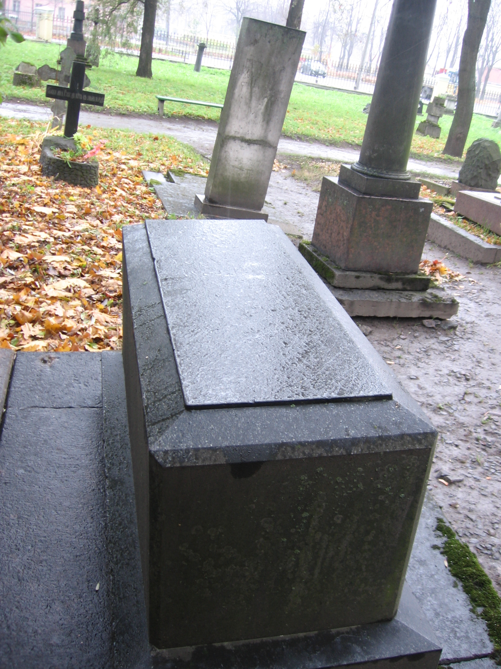 Grave of Sergey Zhebelyov